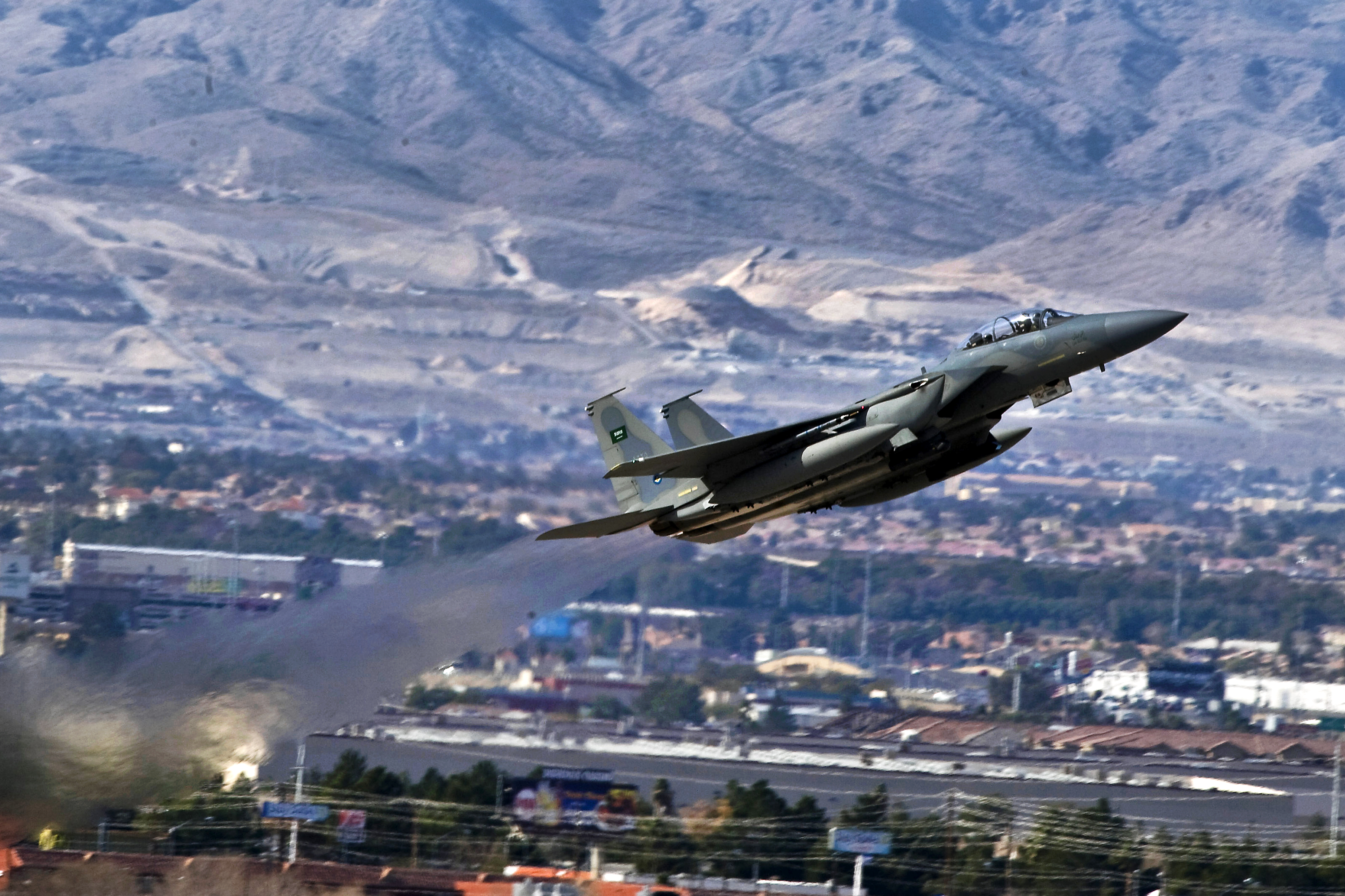 A Royal Saudi Air Force F-15 Strike Eagle departs for a training mission over the Nevada Test and Training Range during Red Flag 12-2 on Nellis Air Force Base, Nev., Jan. 27, 2012.